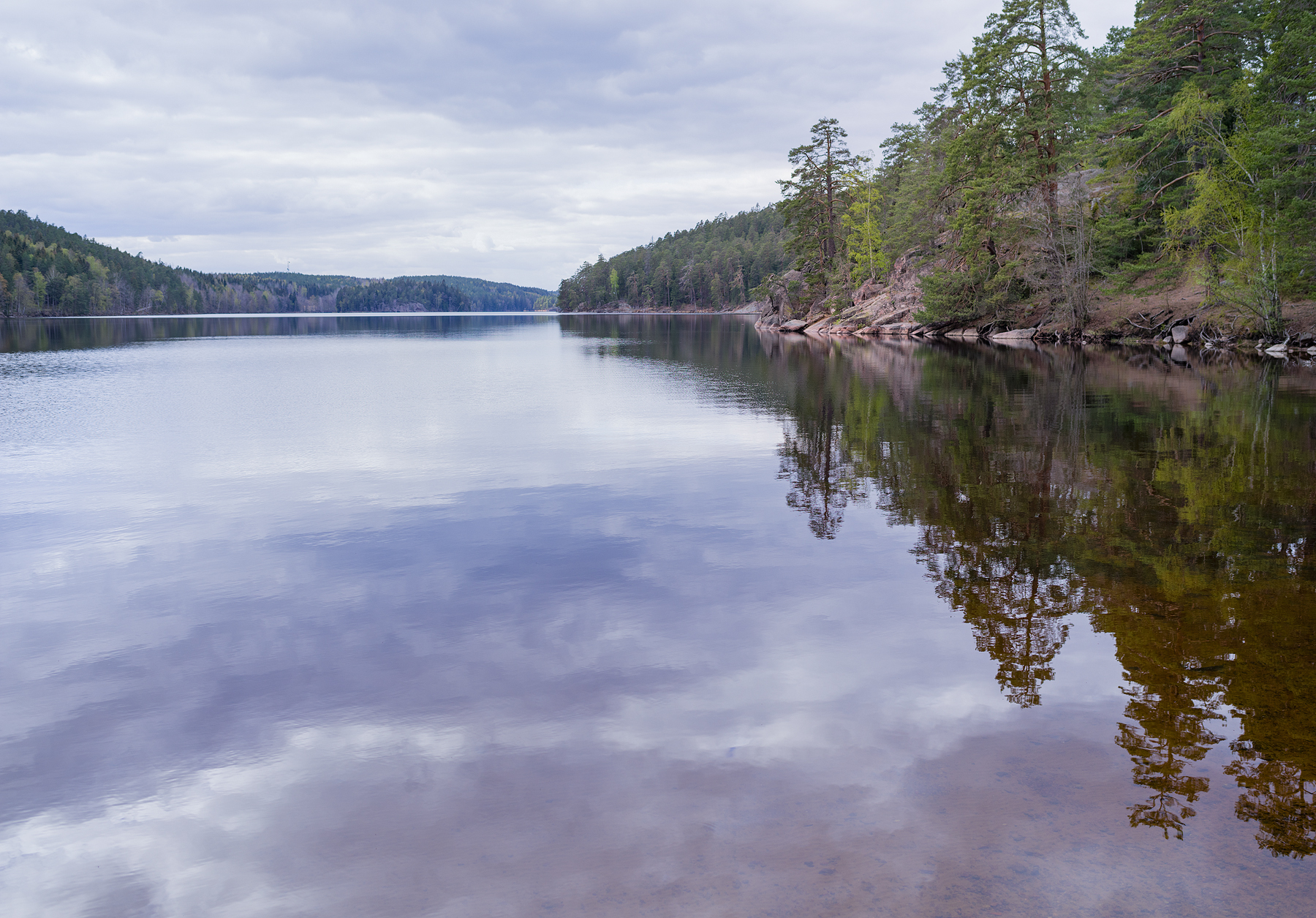 The lake Ågelsjön looking West. You see about three kilometers, two miles.